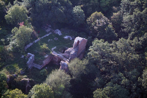 Kereki, Castle, Hungary, aerial photography